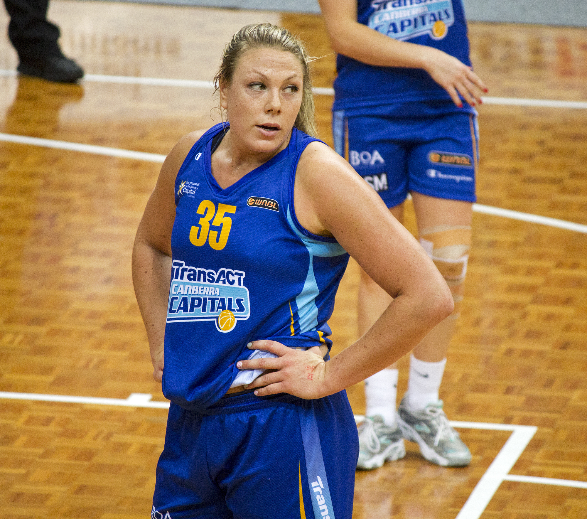 Brigitte Ardossi } at the Canberra Capitals vs Logan Thunder held at AIS Arena at the Australian Institute of Sport.